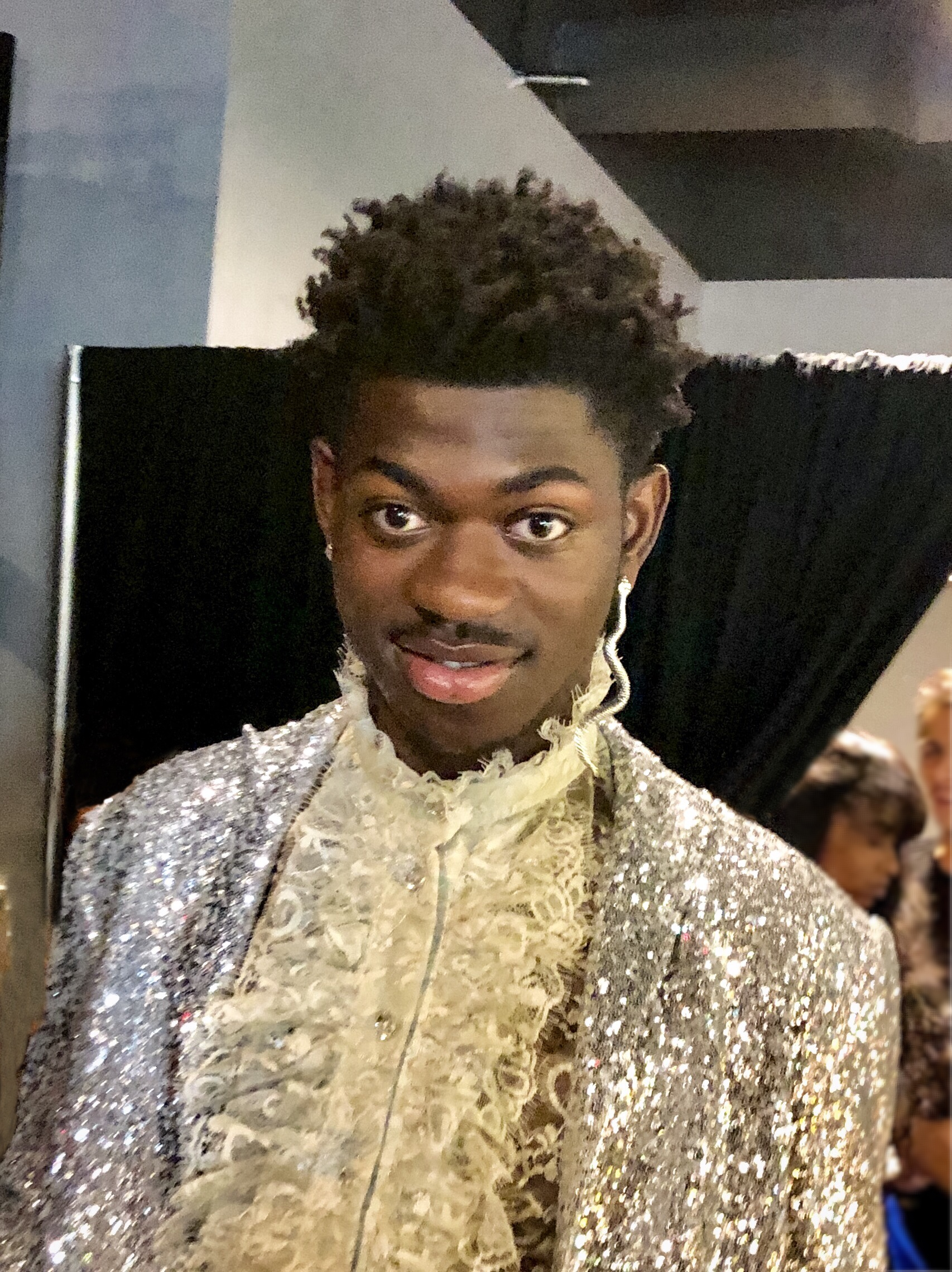 Lil Nas X back stage at the MTV Video Music Awards 2019